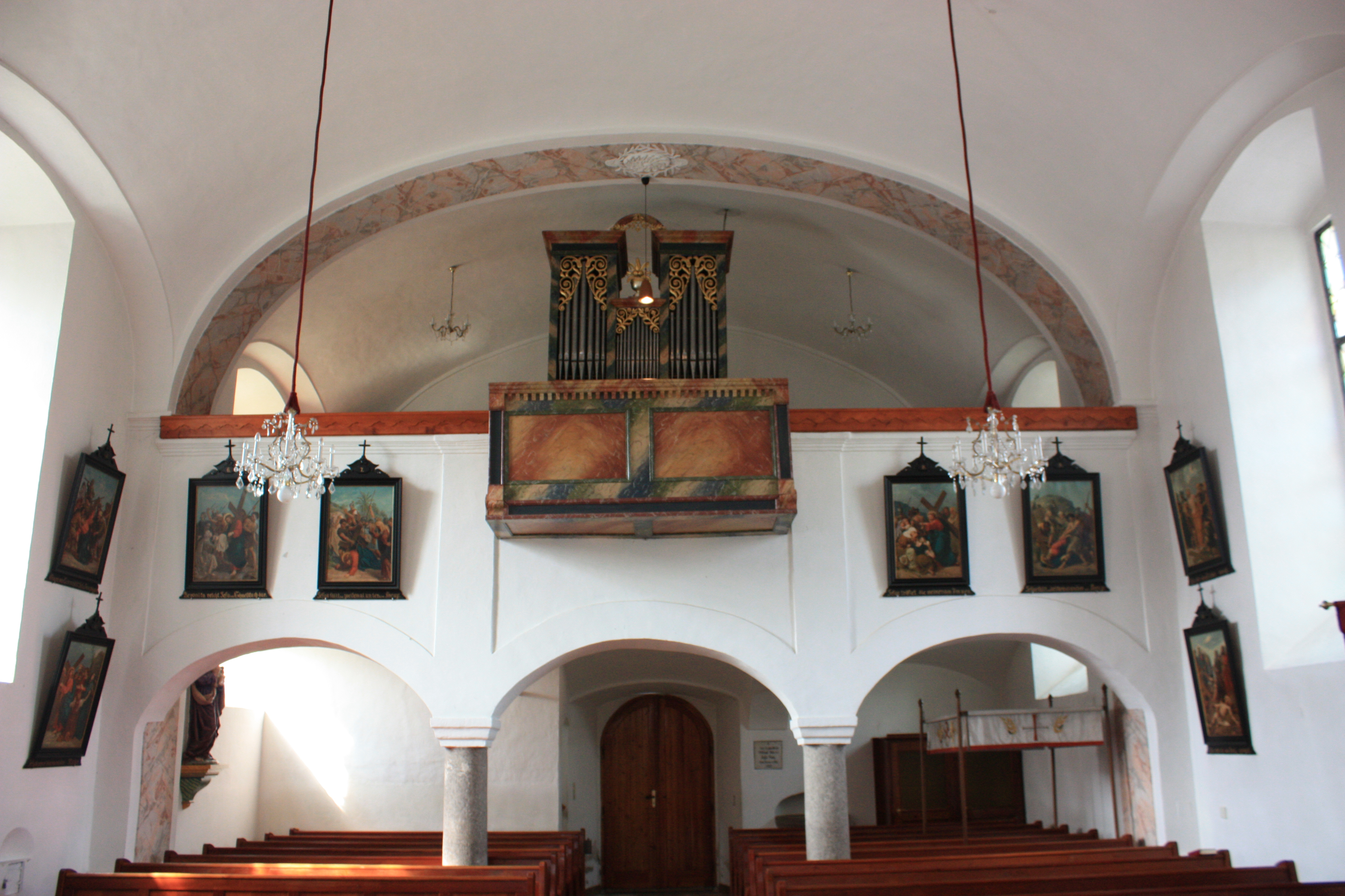 Parish church "Saint Ulrich" - View to the Organ loft Locality: St Ulrich an der Goding Community:Sankt Andrä